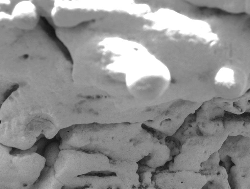 This image, taken by the microscopic imager onboard the Mars Exploration Rover Opportunity, shows a close-up of the region dubbed "El Capitan," which lies within the rock outcrop at Meridiani Planum, Mars. In the lower left, a spherule, or sphere-shaped grain, can be seen penetrating the interior of a small cavity called a vug. This "cross-cutting" relationship allows the relative timing of separate events to be established. In this case, the spherule appears to "invade" the vug, and therefore likely post-dates the vug. This suggests that the spherules may have been one of the last features to form within the outcrop.